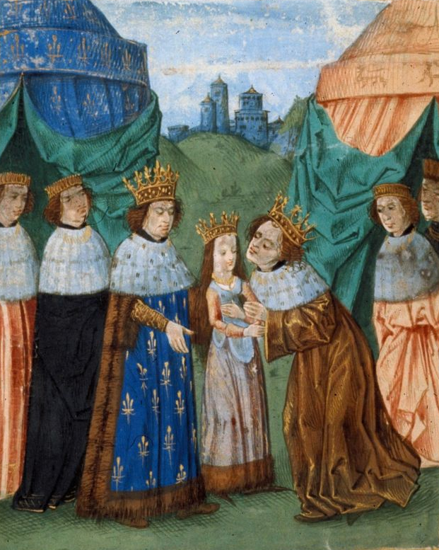 Miniature detailing Richard II of England receiving his six-year-old bride Isabel of Valois from her father Charles VI of France